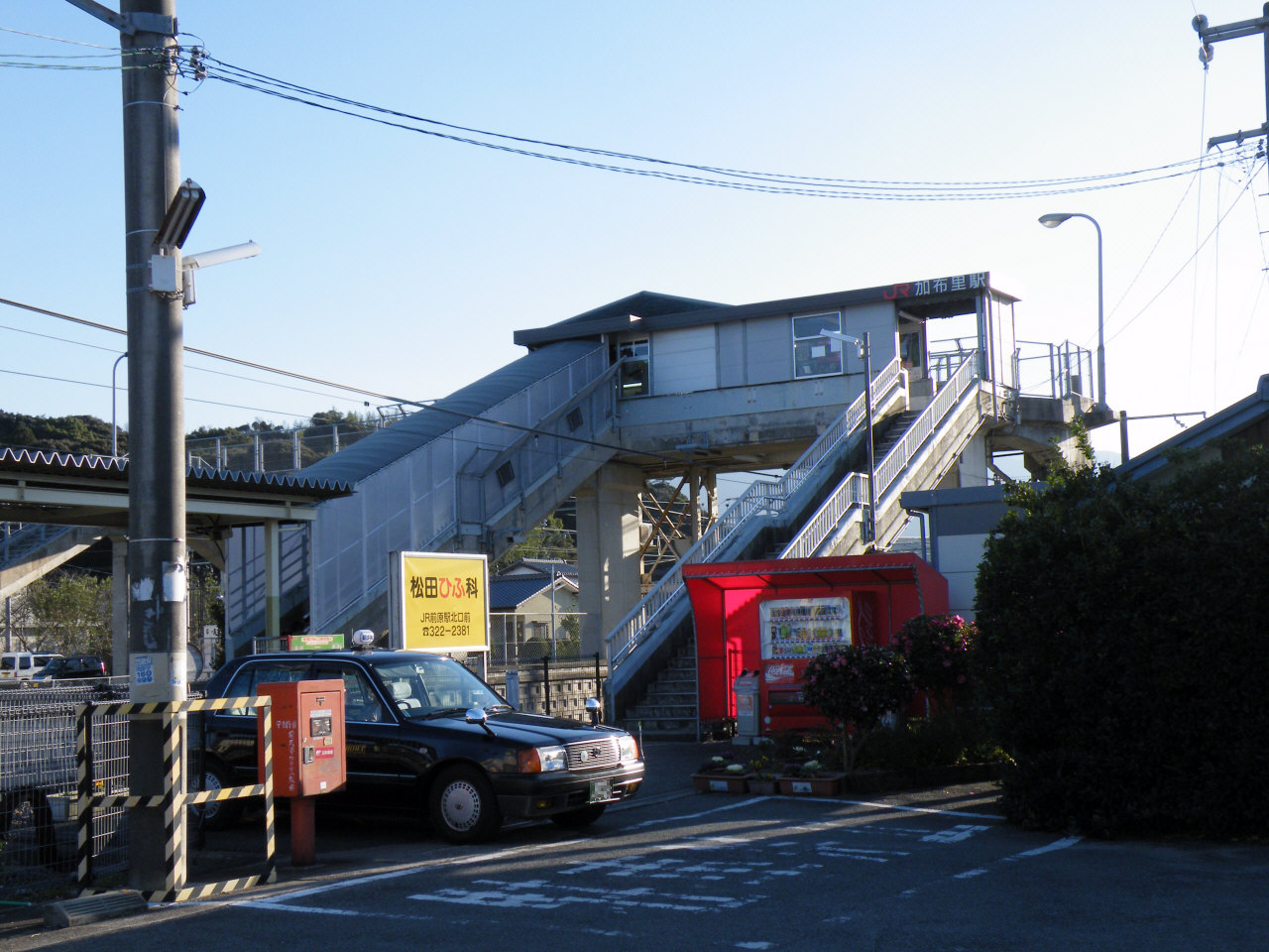 JRKyushu Kafuri Station(Chikuhi Line)